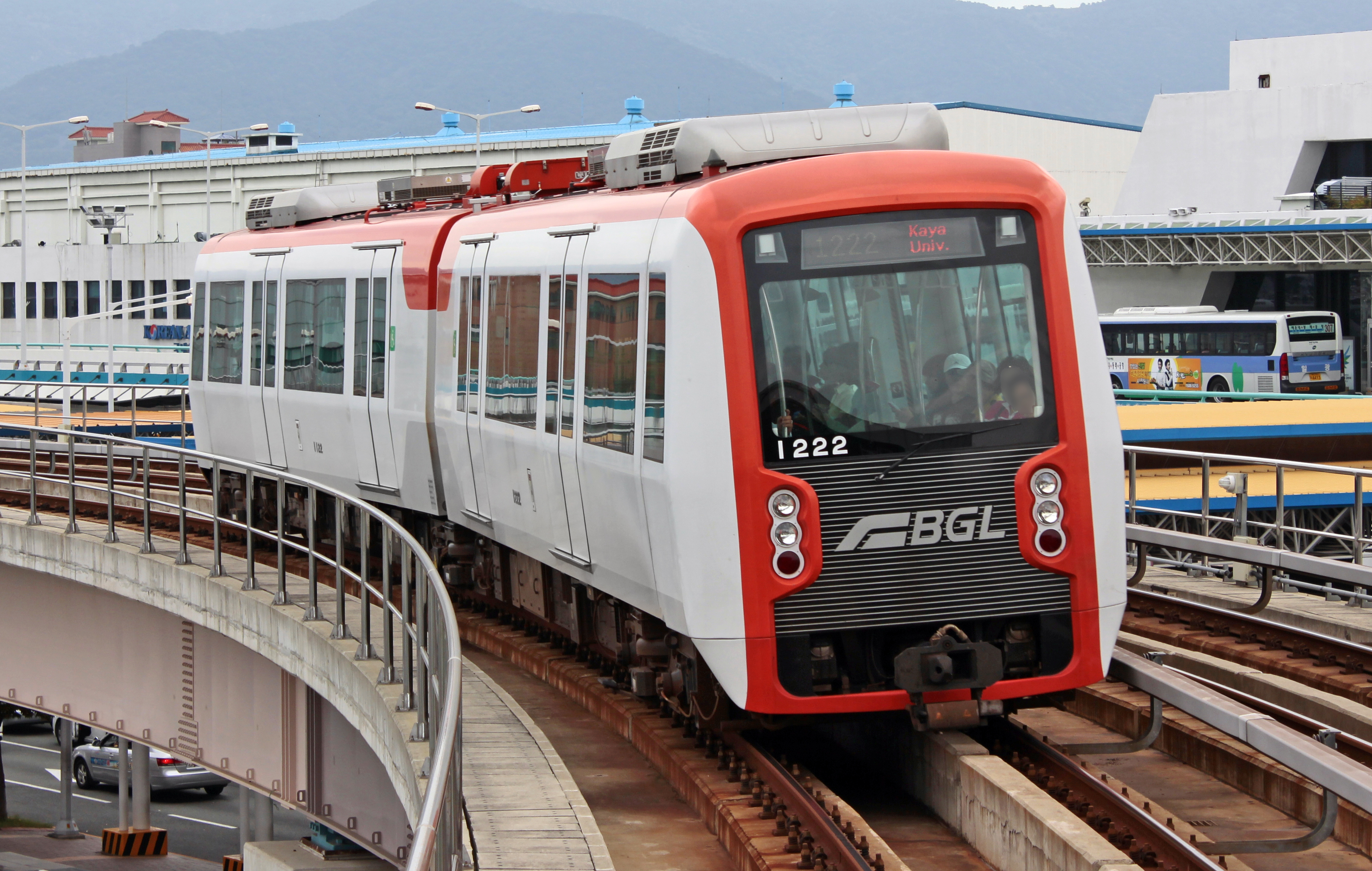 Busan-Gimhae Light Rail Transit 1000 Series EMU @Gimhae Intl Airport Station Westbound